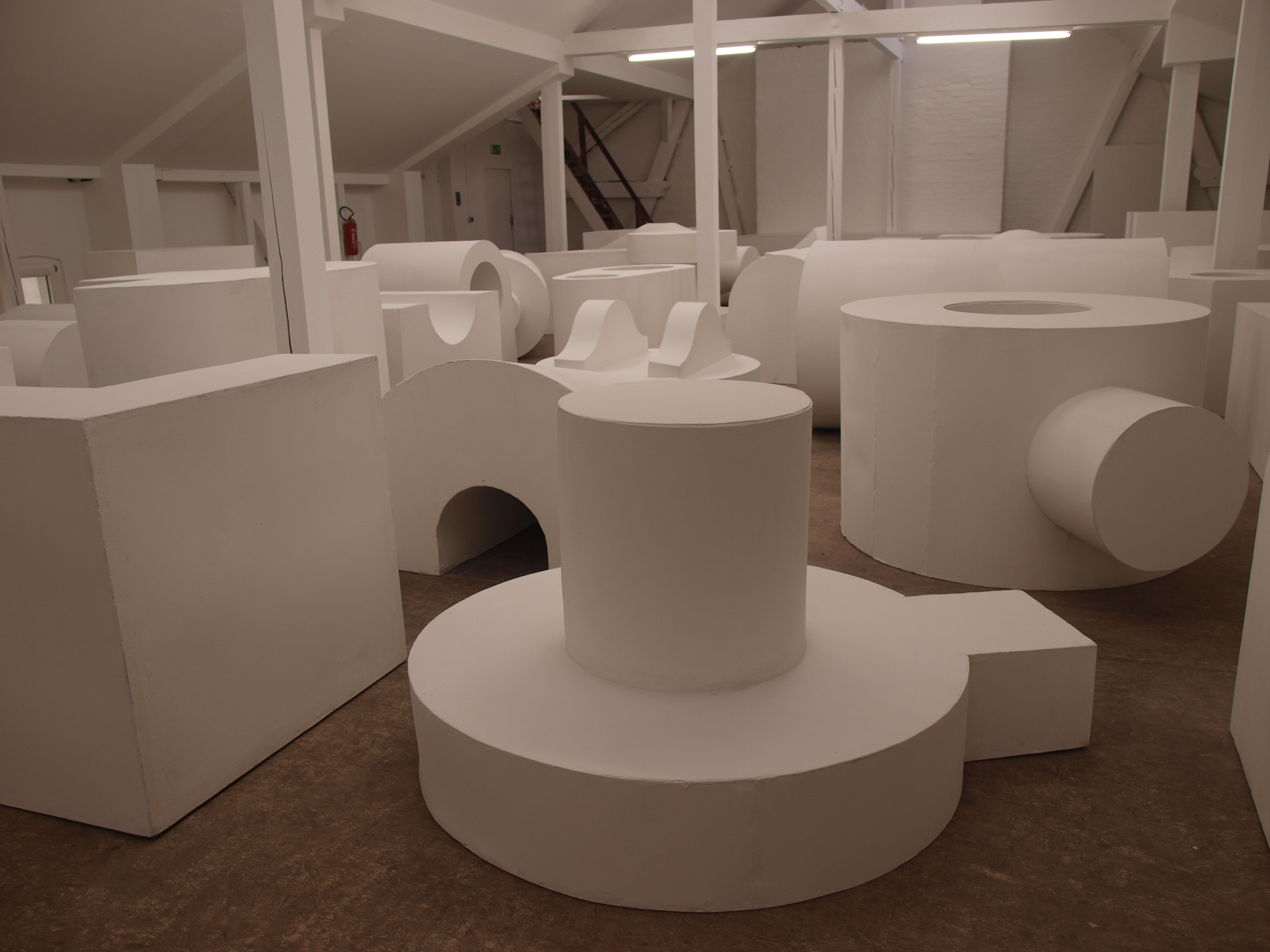 Wood, cardboard, white dispersion paint, 6 neon tubes, 40 elements, 140×928×1028; collection of Fonds Régional d’Art Contemporain Languedoc- Roussillon, Montpellier